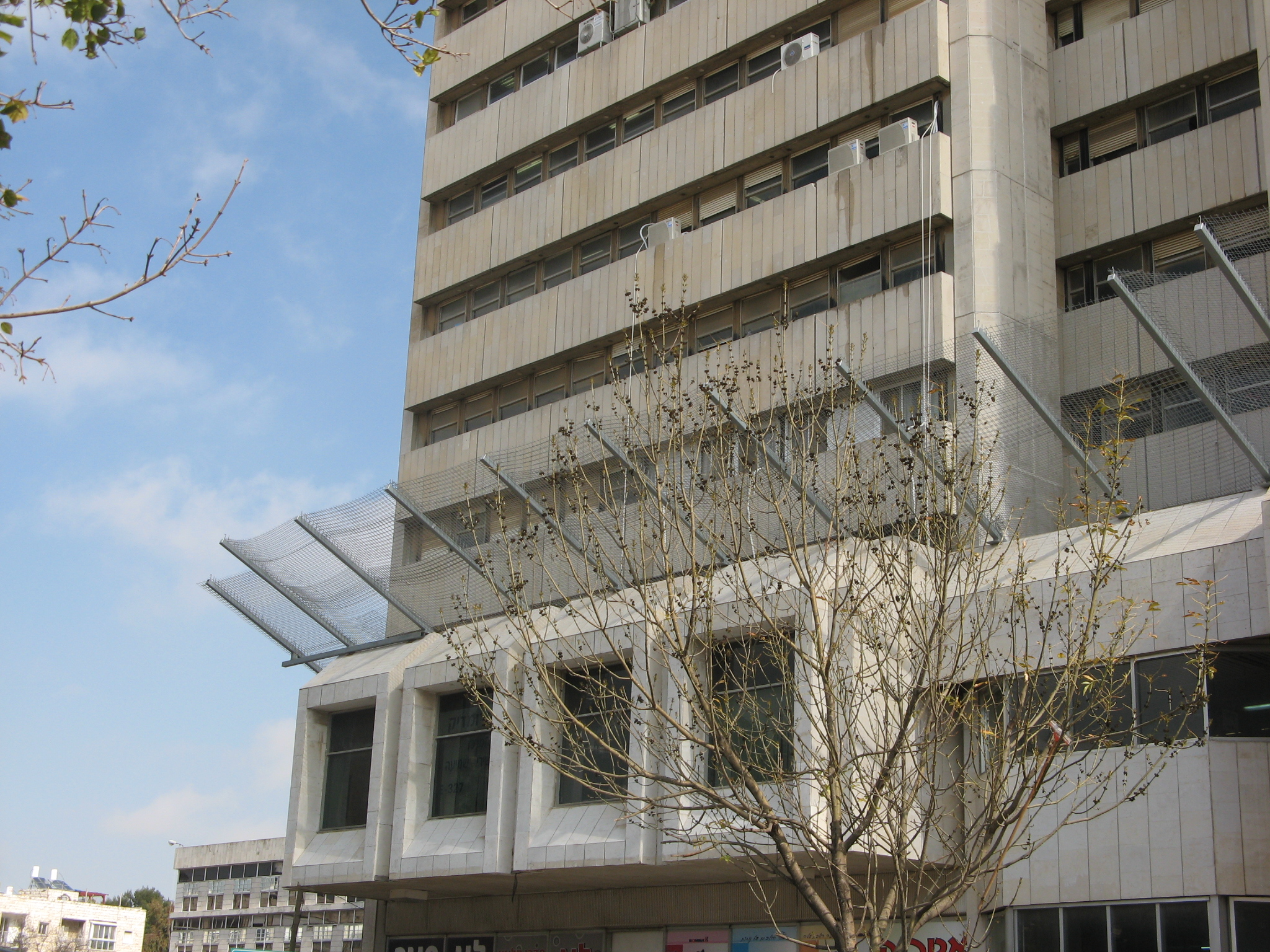 Rescue net around Clal Center, 97 Jaffa Rd., Jerusalem, erected to stop suicide jumpers from leaping from the upper stories